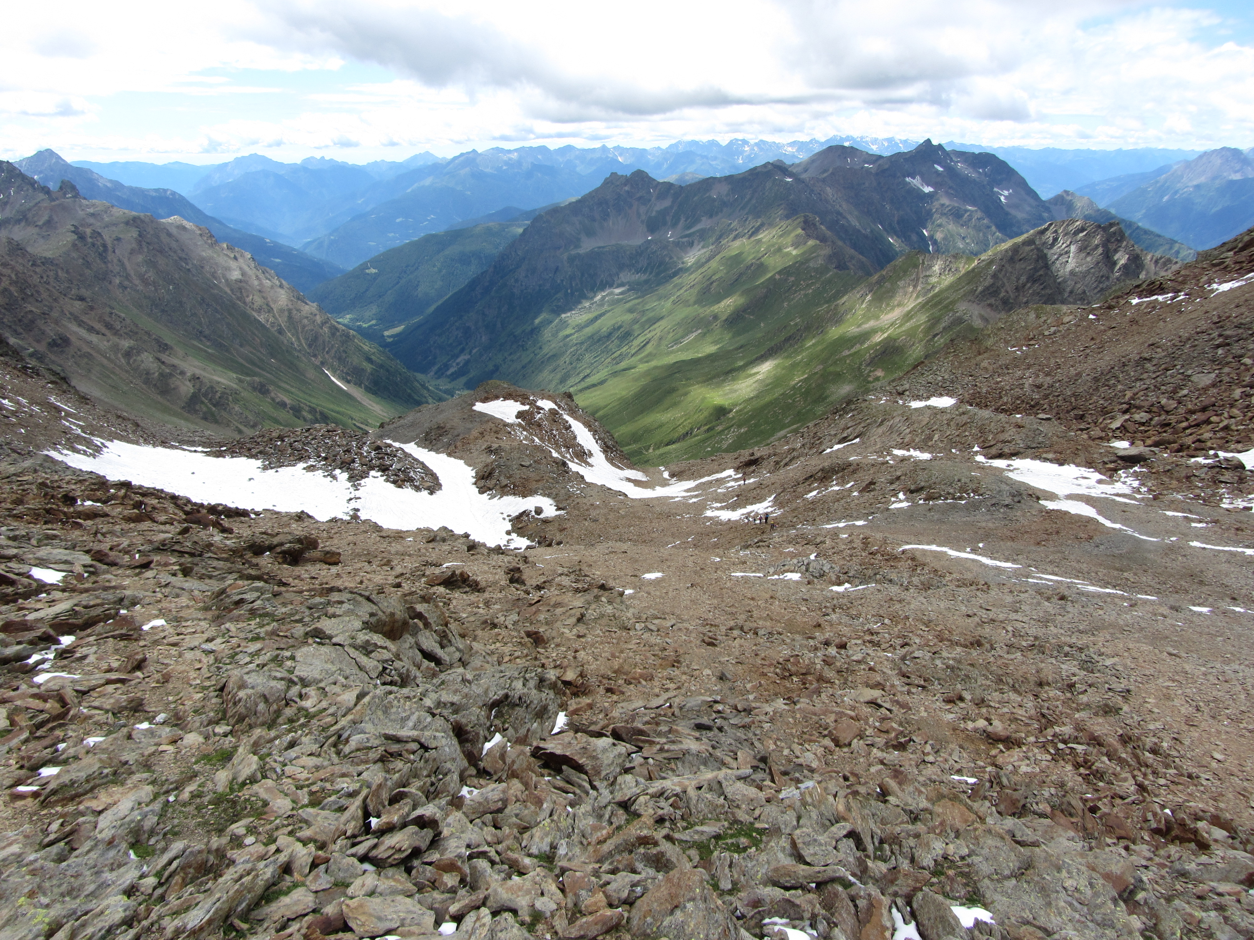 Italian Alps - "Val Grande" (Big Valley) as seen from "Passo di Pietra Rossa" (Red Stone Pass), near Vezza d'Oglio (BS)